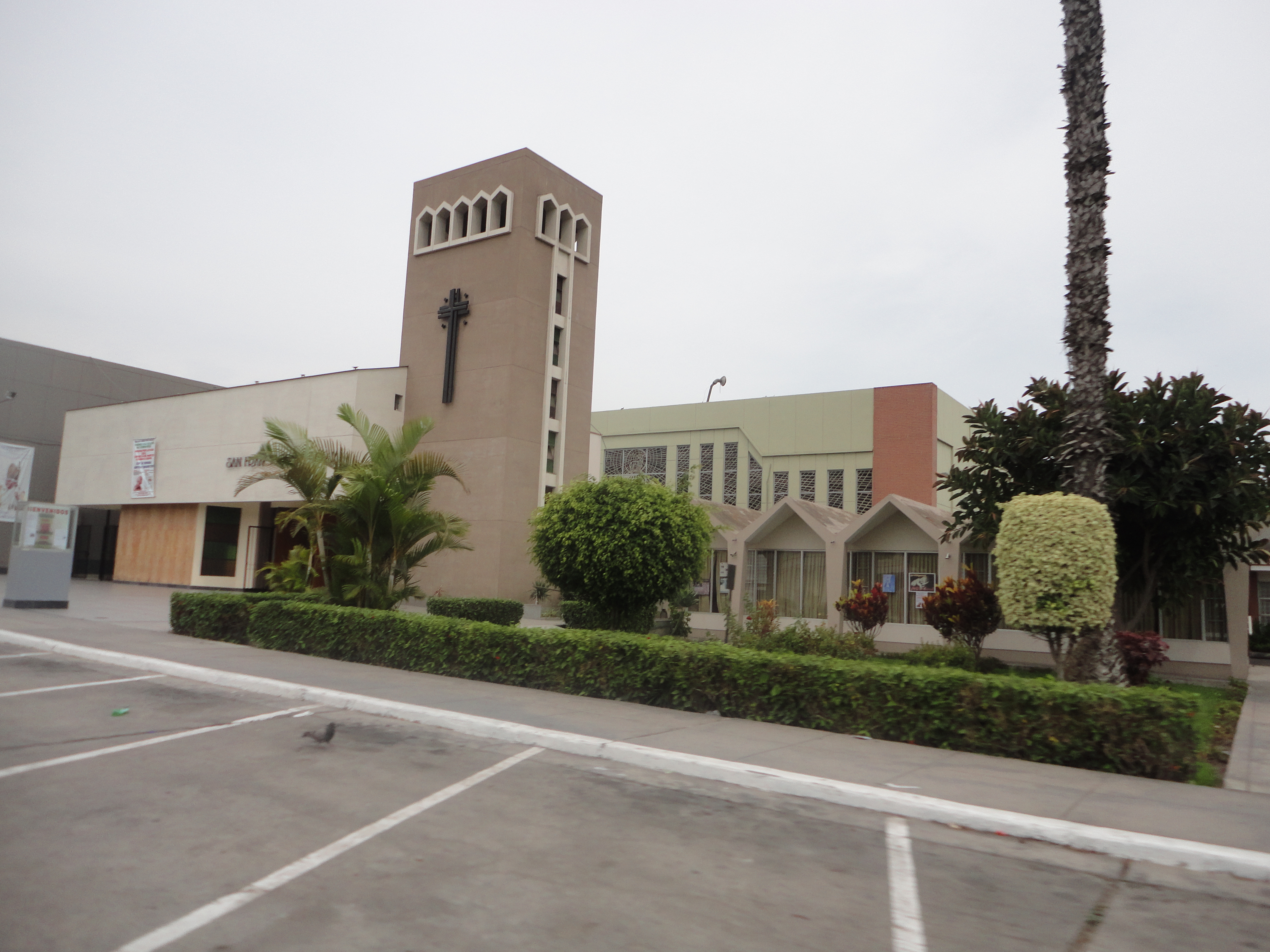 Saint Francis Borgia Church in San Borja District, Lima-Peru.